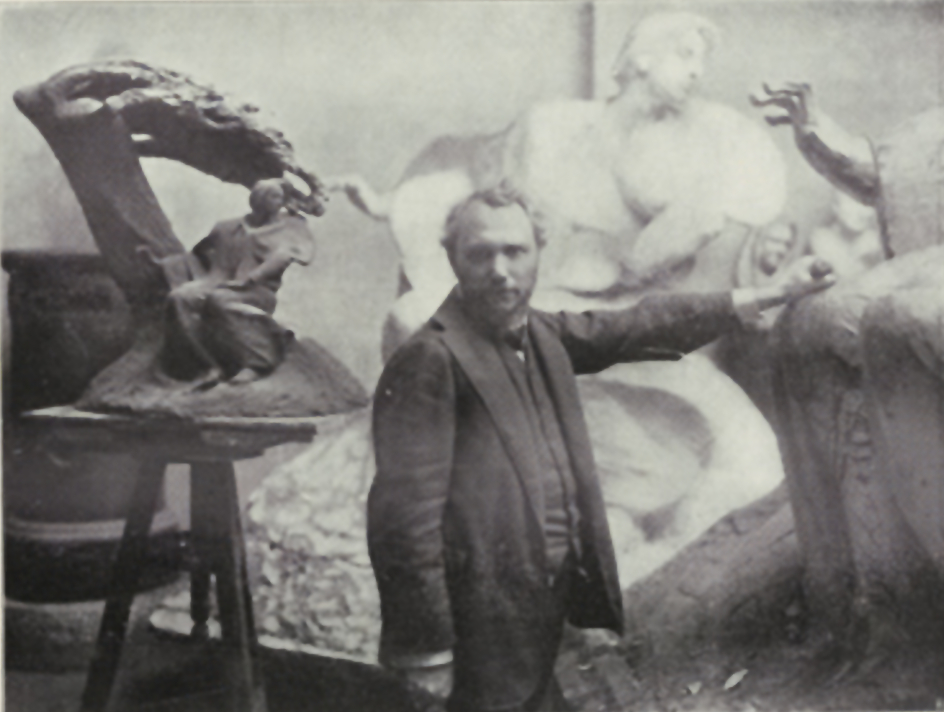 Czasopismo "Sztuka" art. Tryumf sztuki polskiej", 1911.